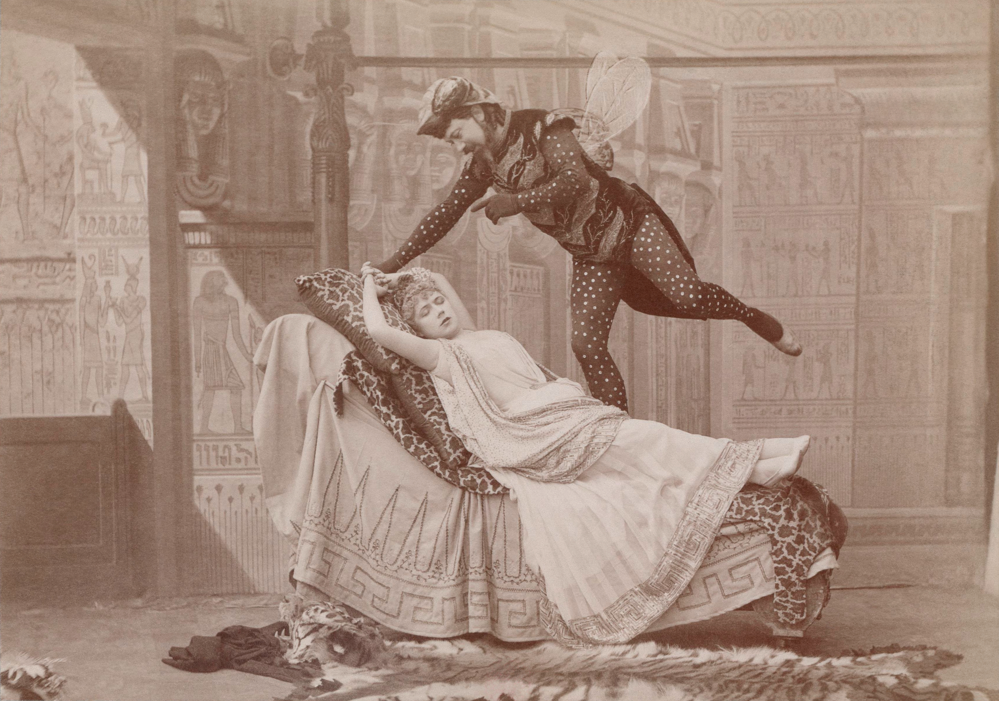 Jeanne Granier (Eurydice) and Eugène Vauthier (Jupiter) in the famous fly scene from Jacques Offenbach's Orphée aux enfers. Albumen print, 10.5 x 14.5 cm. This was the 1887 revival cast. A gorgeous colourised version by Wilfredor is available at File:Atelier Nadar - Fly scene from Offenbach's Orphée aux enfers with Jeanne Granier as Eurydice and Eugène Vauthier as Jupiter, 1887 revival, wide-angle shot-Colorized.jpg. Advantages of uncolourised Colourization involves a bit of speculation, so this may have higher encyclopedic value. Advantages of colourised Makes elements pop out. Gorgeous and artistic. If the specific production doesn't matter (posters, illustrations of the show as a whole, etc), has no disadvantages Fun fact: If I'm not horribly mistaken, those wings are pretty clearly drawn on after the photo was taken, likely because the real props wouldn't stay still long enough.